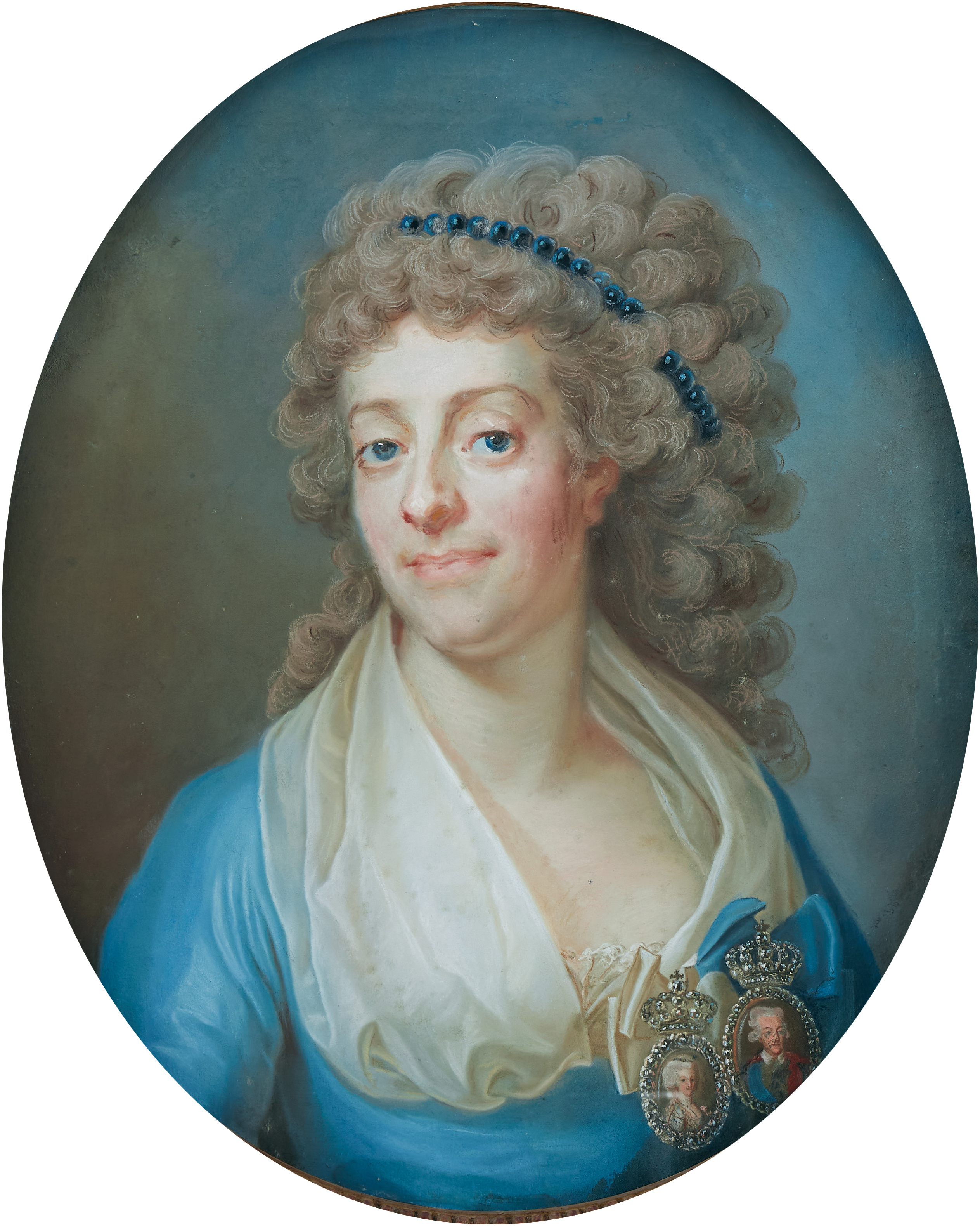 Portrait of Hedvig Catharina Piper née Ekeblad (1746–1812)